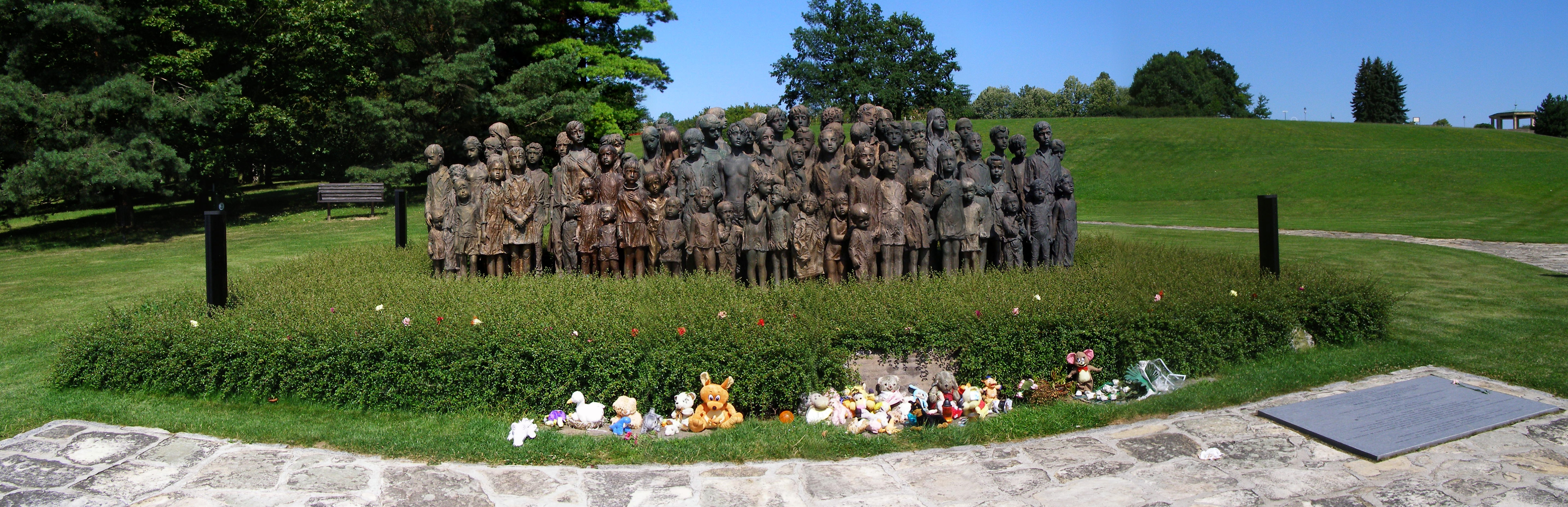 Statue for children moved for germanization after destroying of village Lidice. "Germazitation" was finally made by the gas tuck which killed all the children at extermination camp Chlemno in Poland.